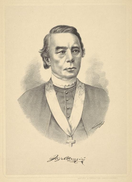 Ilija Okrugić Sremac, pastor of Petrovaradin